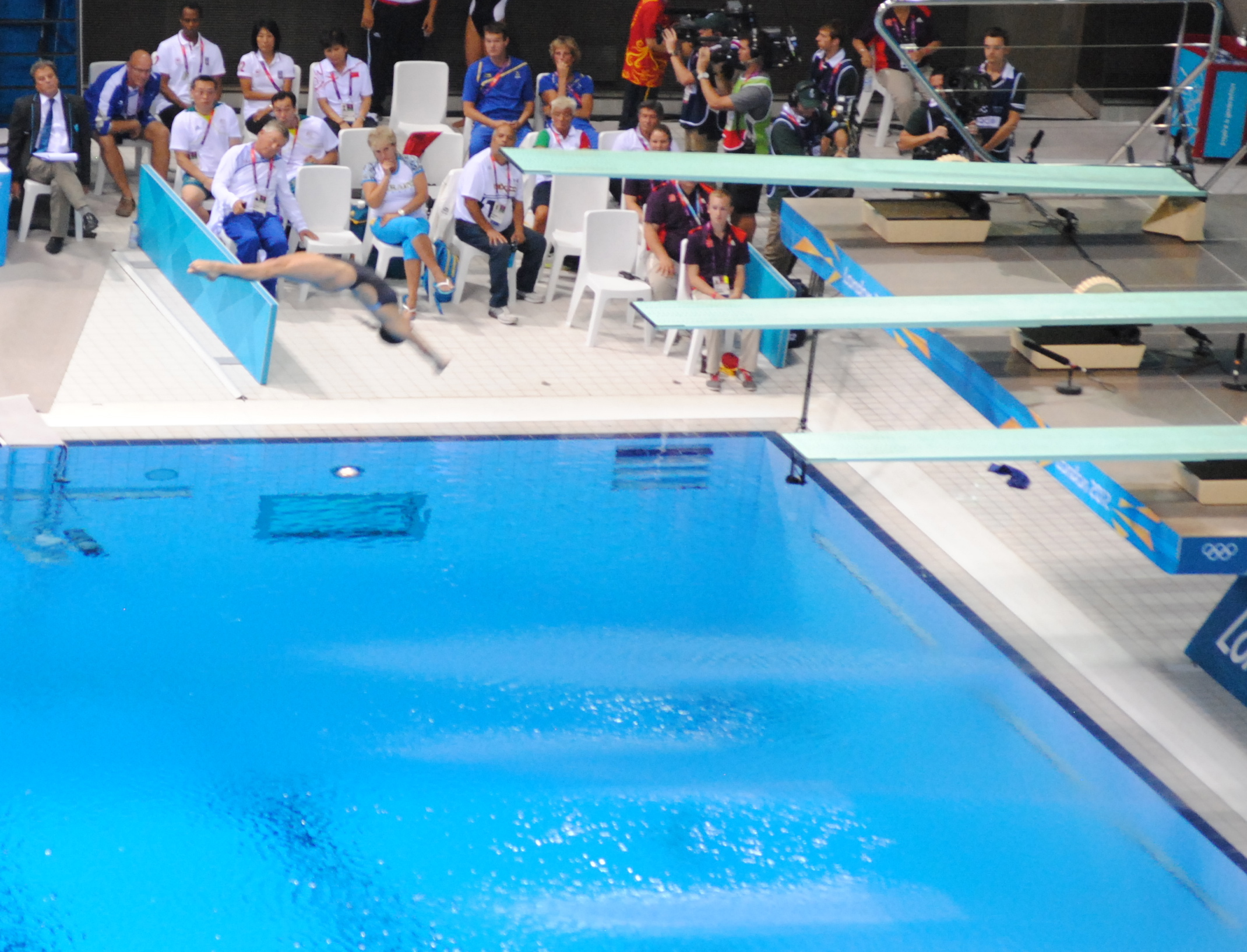 Aquatics Center, Olympic Park